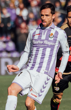 Real Valladolid - Rayo Vallecano, 18th fixture of the 2018-19 La Liga, January 5, 2019.